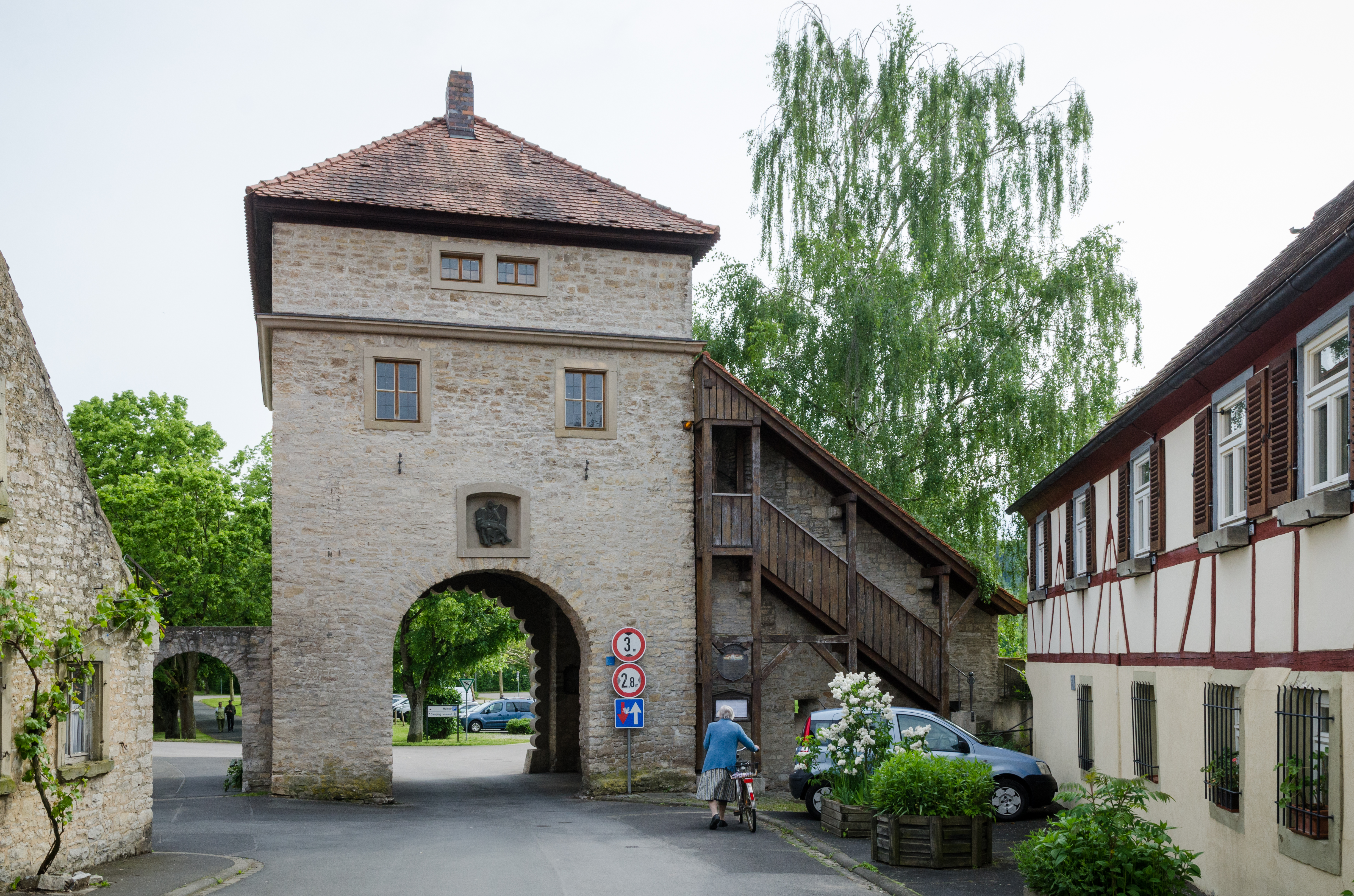 Sommerach, Maintor